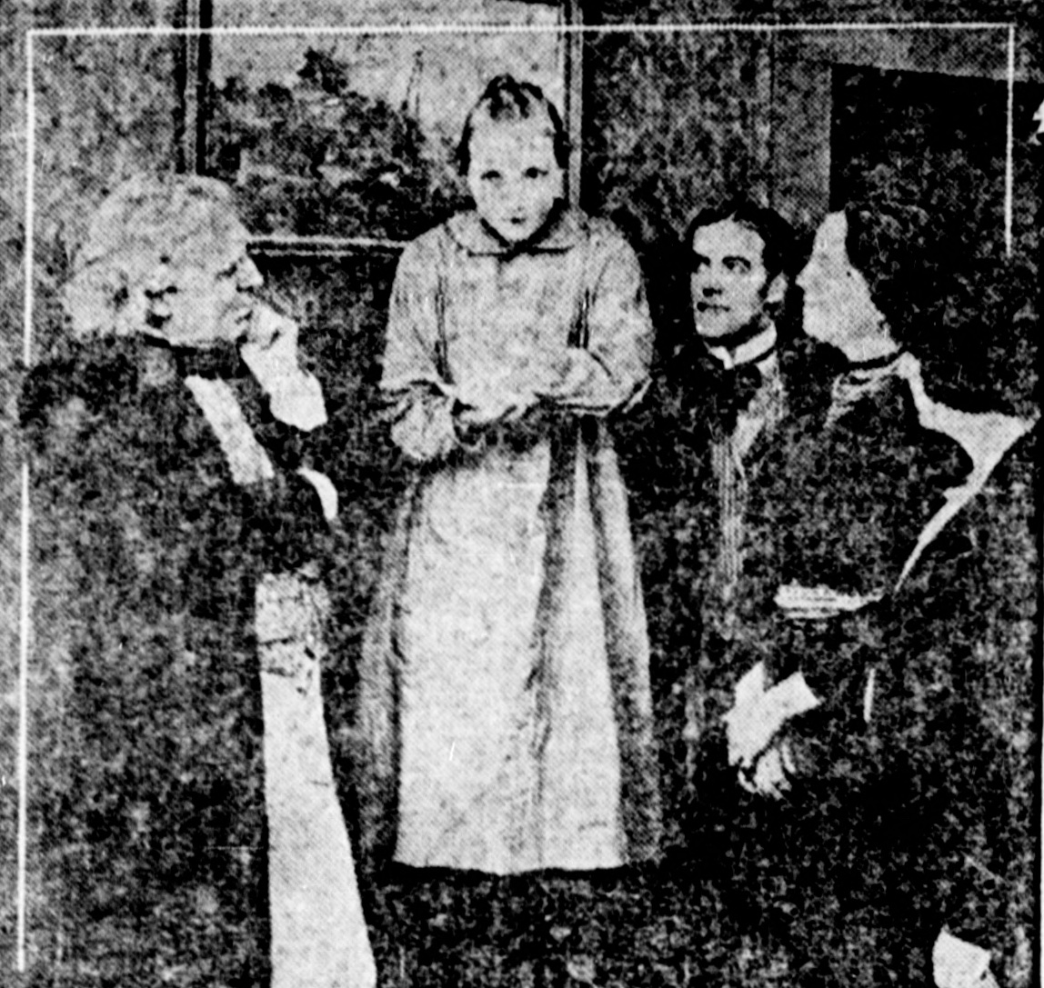 Bessie Love in a scene from "Polly Ann" as published in a 1917 newspaper